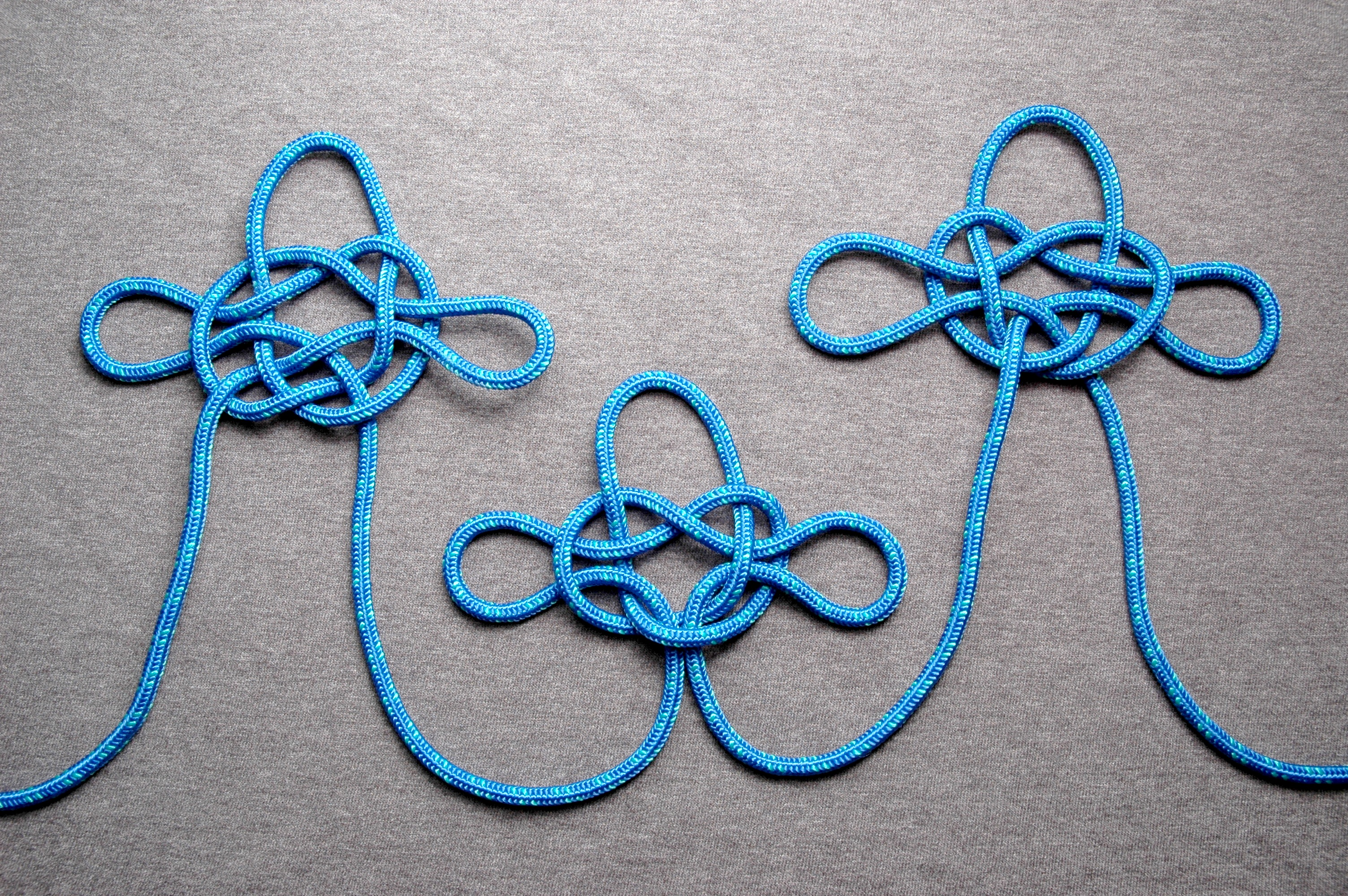 Three variations of Jury mast knot; left to right, ABOK #1167, #1168, #1169